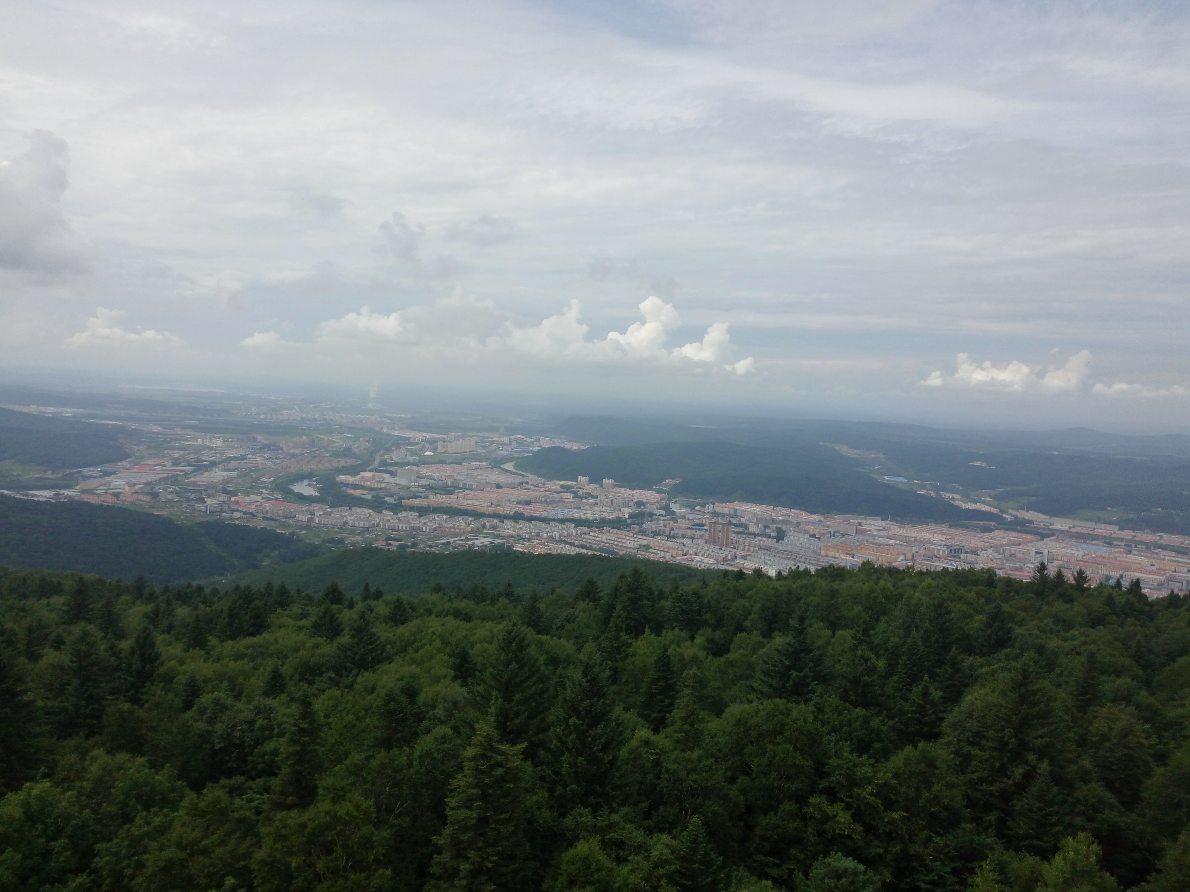 Sight of the city from the top of Xing'an Tower, Yichun, Heilongjiang, China